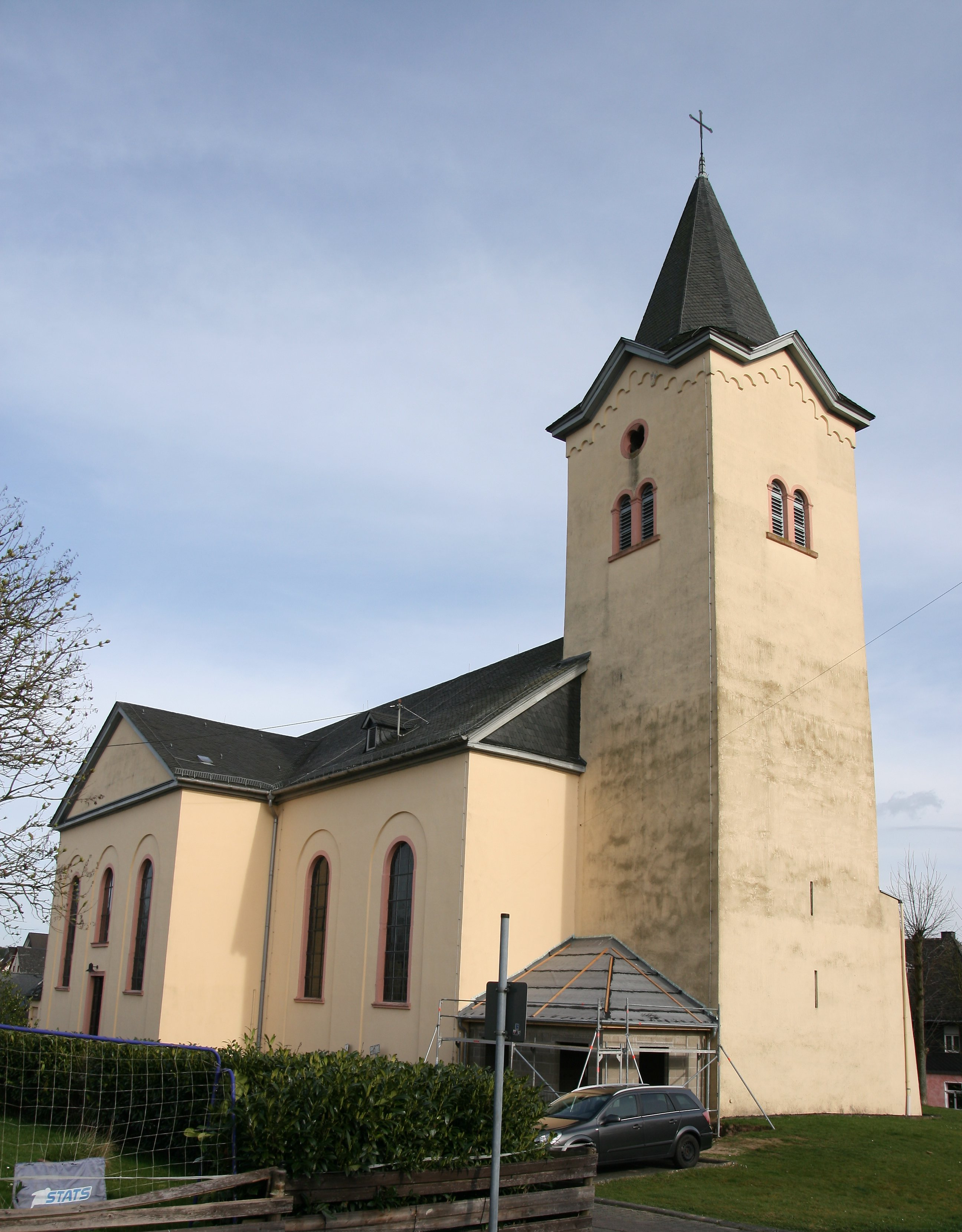 Catholic Church St. Maria, errected 1837. Cultural heritage. Location: Kirchstraße 1, Marienrachdorf, Westerwald, Germany. View from north-west